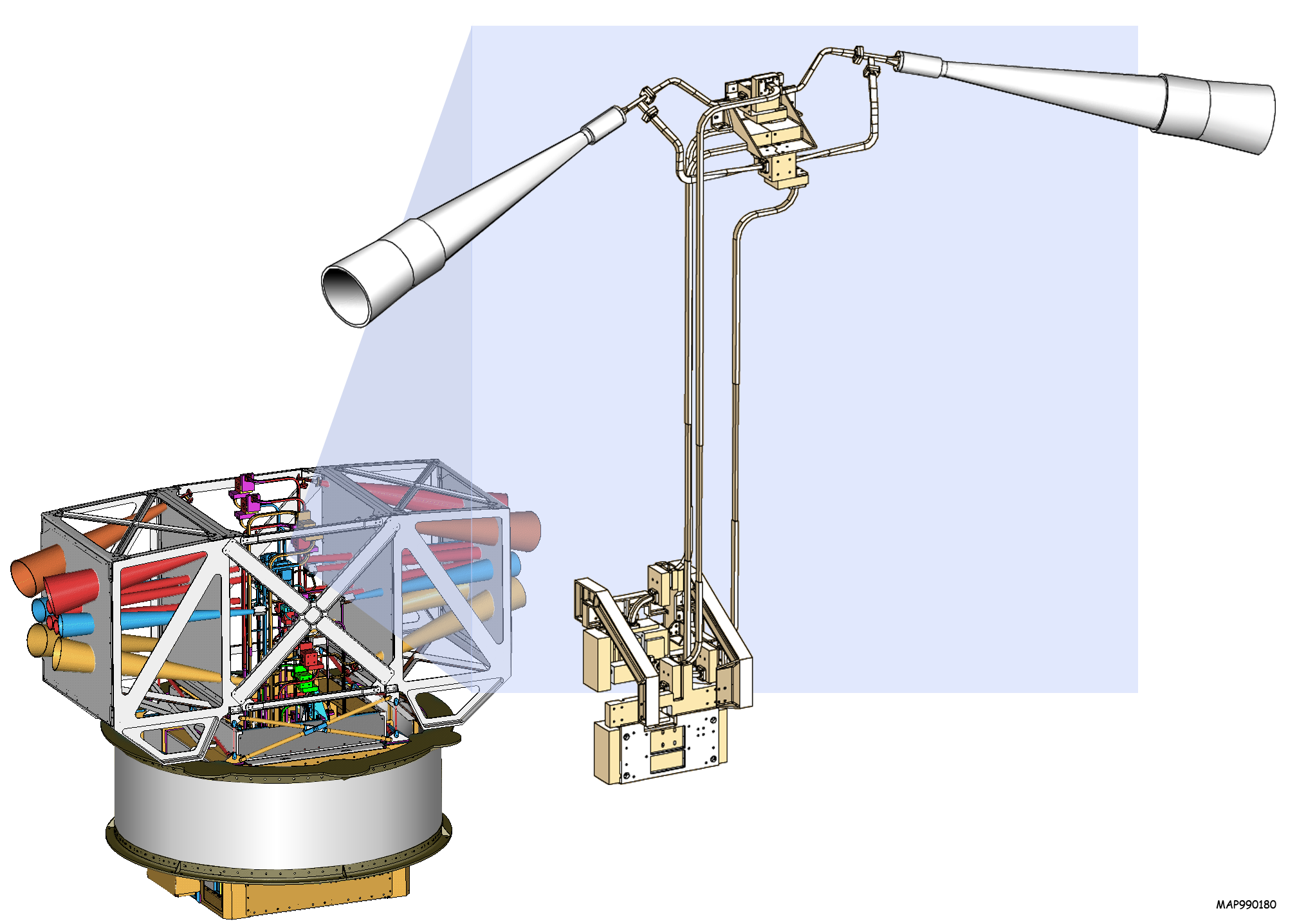 NASA-created illustration of the Wilkinson Microwave Anisotropy Probe spacecraft receivers. "WMAP's Microwave System consists of ten 4-channel “differencing assemblies”, each of which receives signals from a pair of feeds. The output of each assembly is proportional to the temperature (brightness) difference between the two lines of sight on the sky. To improve sensitivity and stability the system has a cold section where the first stages of microwave signal amplification occur, then a warm section where the remaining amplification occurs before being converted to an electrical signal."